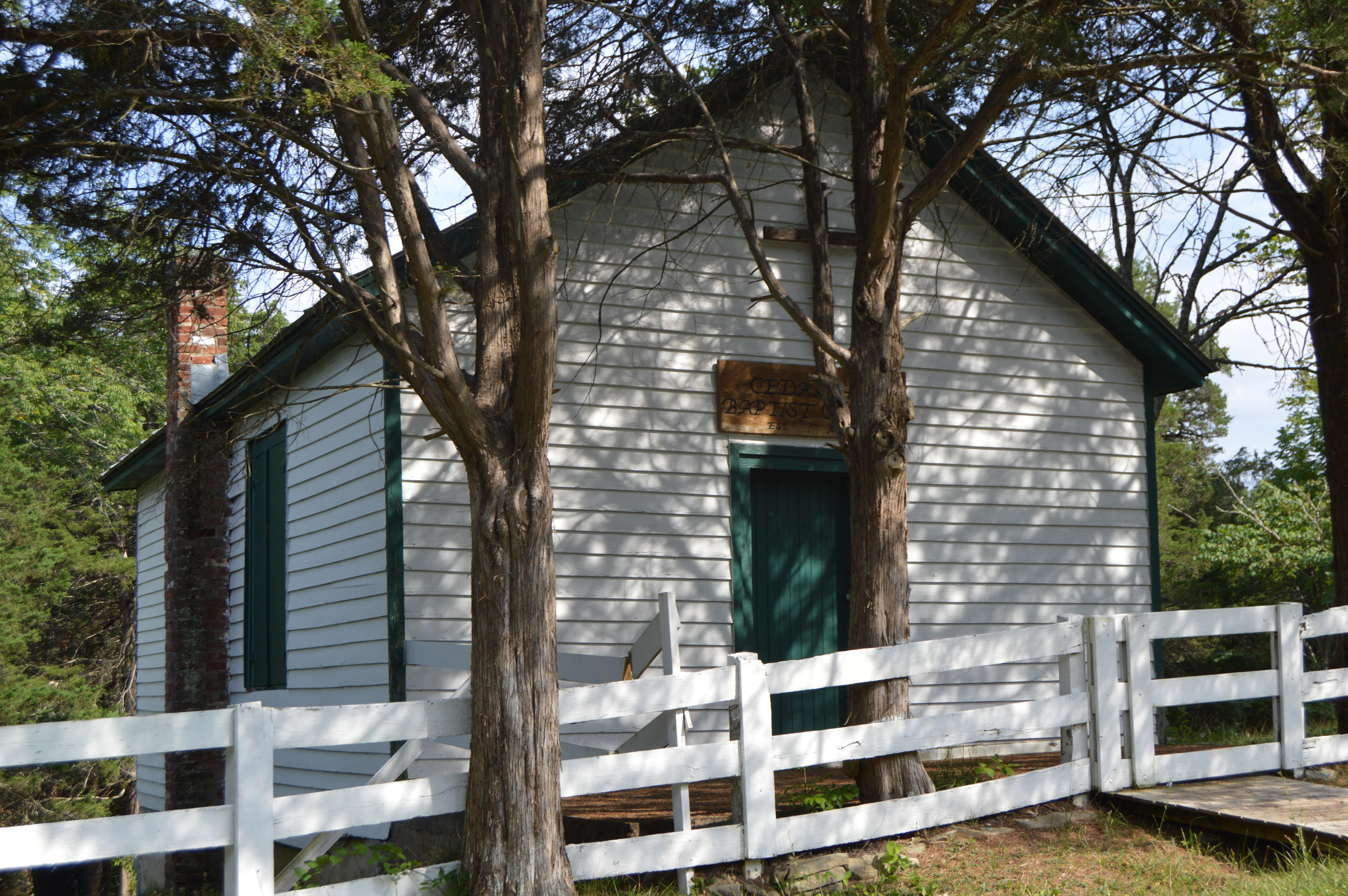 Northern side and front of the former Cedar Hill Church, located on Cedar Hill Church Road southwest of Lexington in Rockbridge County, Virginia, United States. Built in 1874, it is listed on the National Register of Historic Places.